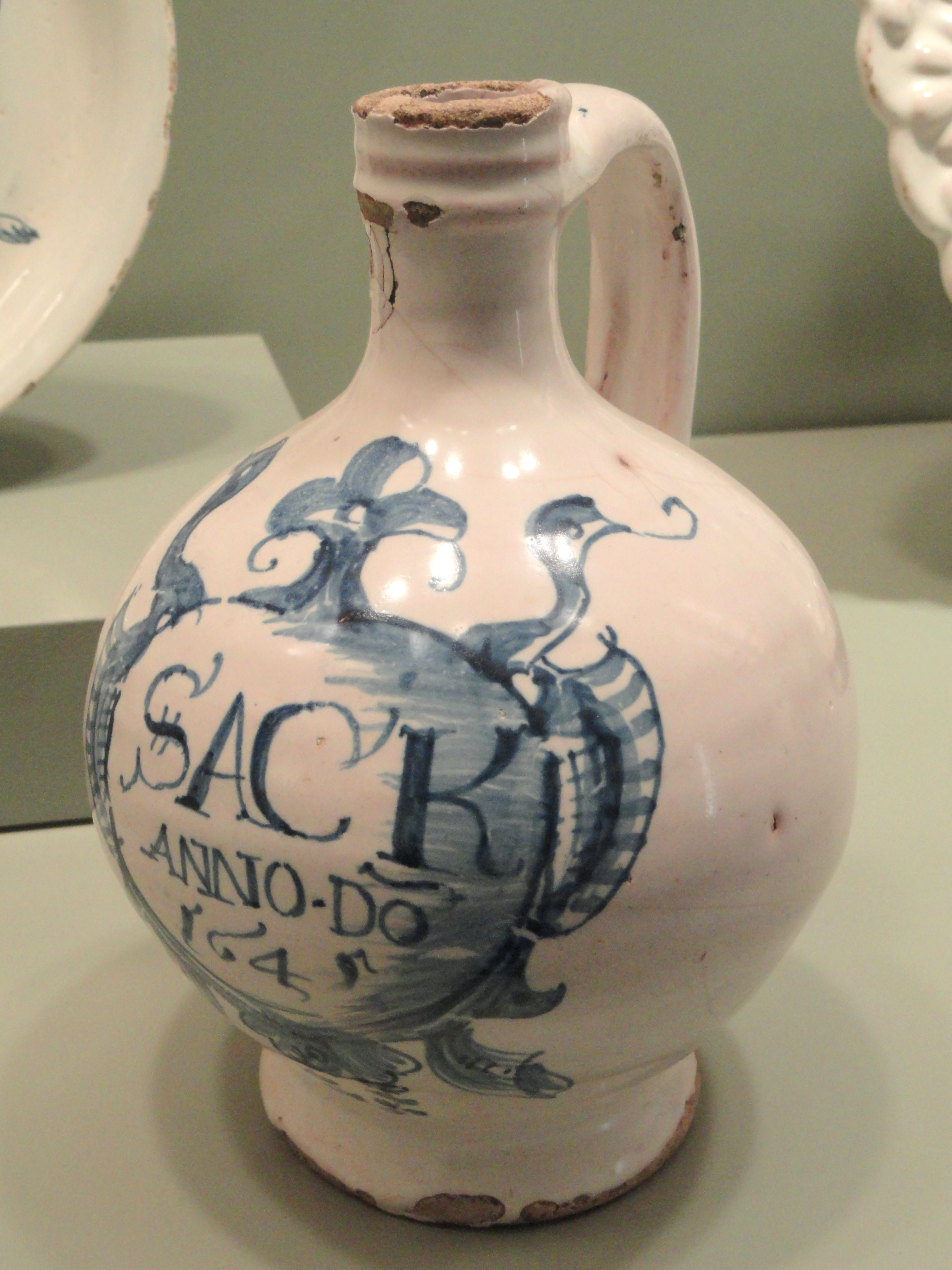 Exhibit in the Gardiner Museum, Toronto, Ontario, Canada. This artwork is in the public domain because the artist died more than 70 years ago.